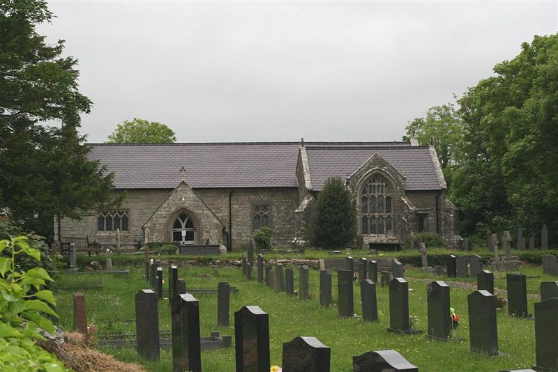 Llangadwaladr church, Anglesey